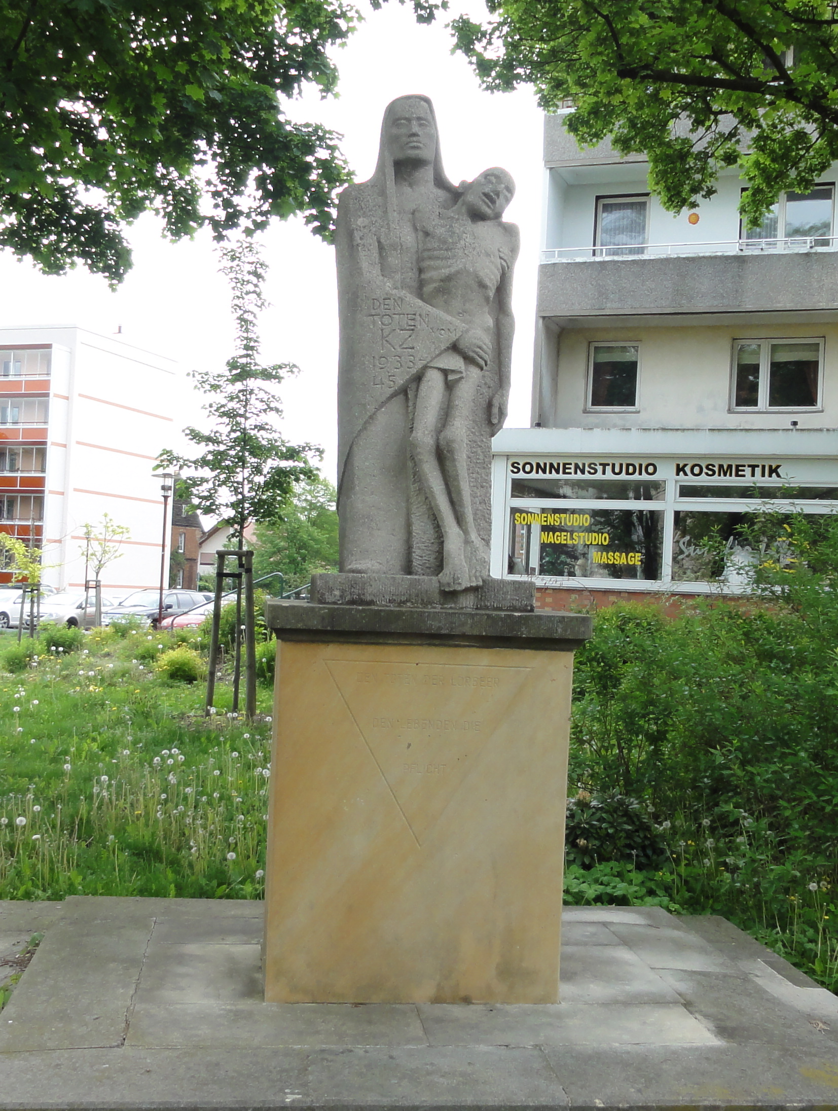 Memorial to the victims of the Concentration Camp in Weißwasser, Muskauer Straße; created by Gustav Seitz, erected after 1945; cultural heritage monument inscription:To the victims of the concentration camp 1933–45laurels to the dead – obligation to the living